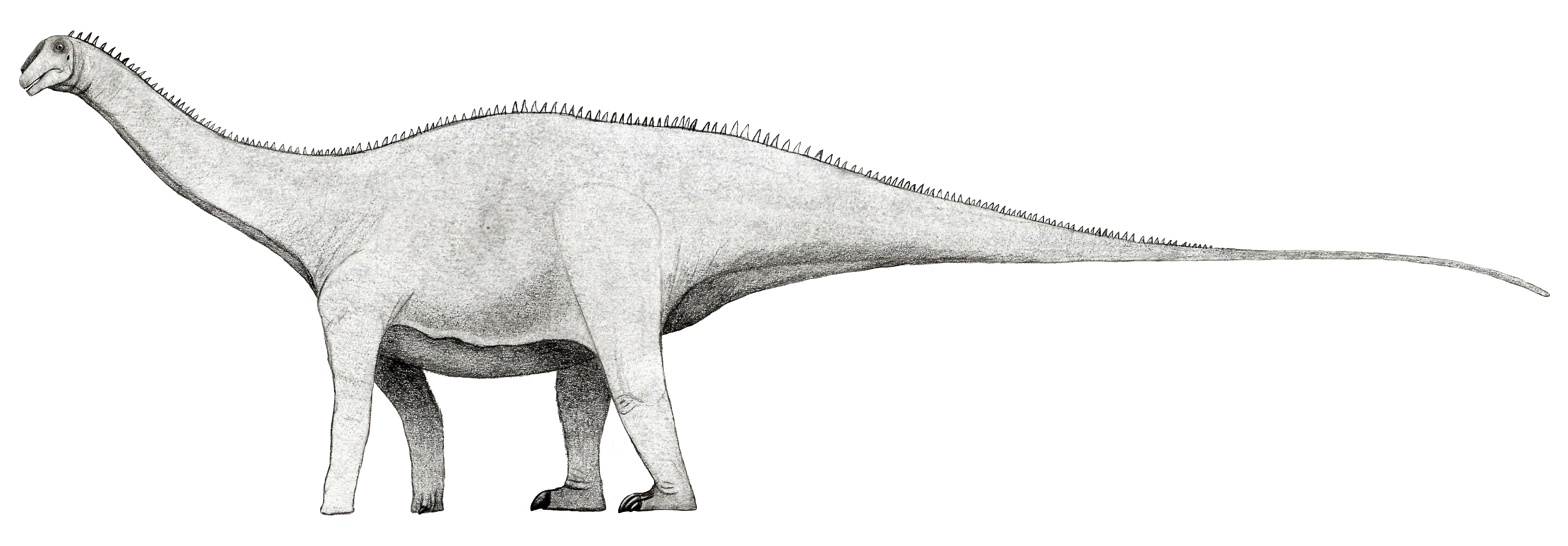 Reconstruction in life of Xenoposeidon. Brief advice by Rubén Molina-Pérez. References Taylor, M. P.; Wedel, M. J.; Naish, D. (2009). "Head and neck posture in sauropod dinosaurs inferred from extant animals". Acta Palaeontologica Polonica. 54 (2): 213–220. Marugán-Lobón, J. S.; Chiappe, L. M.; Farke, A. A. (2013). "The variability of inner ear orientation in saurischian dinosaurs: Testing the use of semicircular canals as a reference system for comparative anatomy". PeerJ. 1: e124. PMC 3740149 . PMID 23940837. Wilson, Jeffrey A., and Ronan Allain. 2015. Osteology of Rebbachisaurus garasbae Lavocat, 1954, a diplodocoid (Dinosauria, Sauropoda) from the early Late Cretaceous-aged Kem Kem beds of southeastern Morocco. Journal of Vertebrate Paleontology35(4):e1000701. Paul 2017. Restoring Maximum Vertical Browsing Reach in Sauropod Dinosaurs (Neck Function in Sauropods) Taylor MP. (2017) Xenoposeidon is the earliest known rebbachisaurid sauropod dinosaur. PeerJ Preprints 5:e3415v1 Jaime A. Headden 2012. On sauropod cheeks. Posted on October 15, 2012